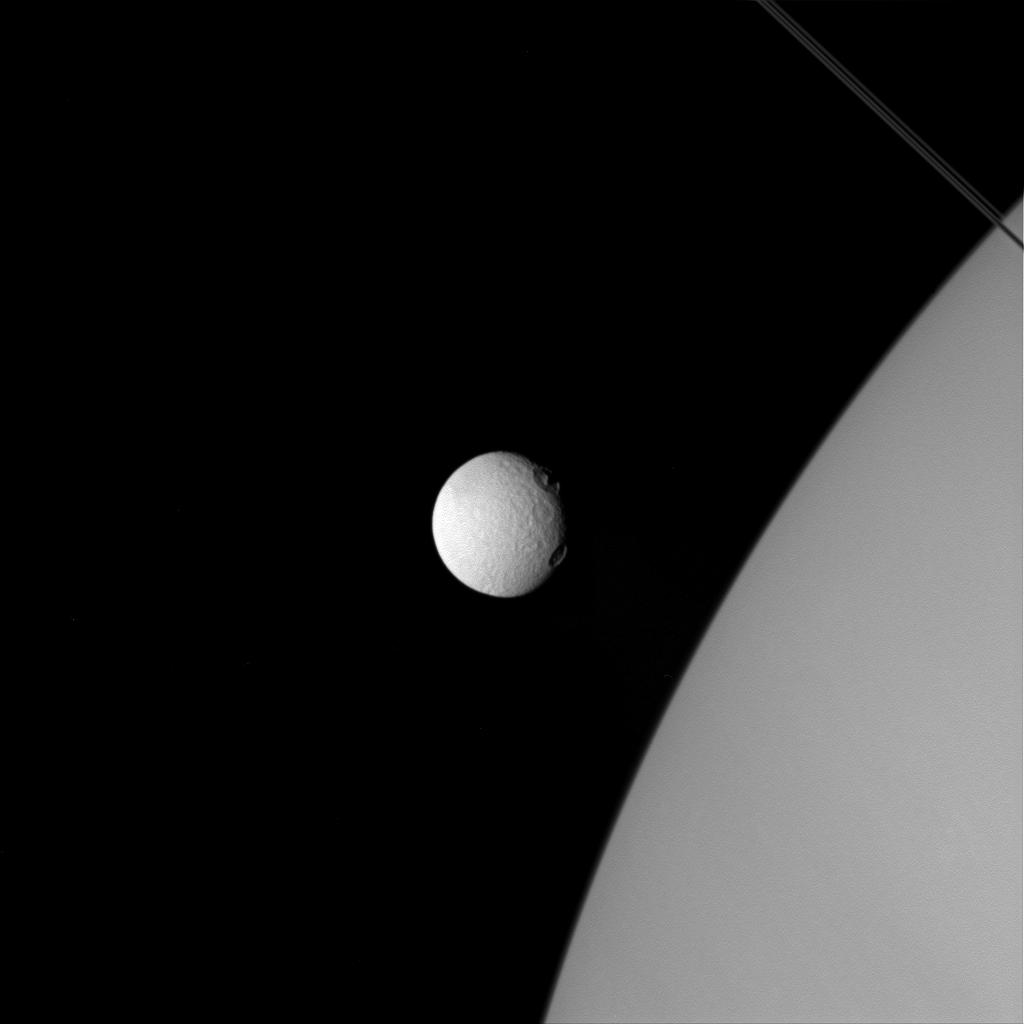 PIA18318: Tethys 'Eyes' Saturn In this image from NASA's Cassini spacecraft, two large craters on Tethys, near the line where day fades to night, almost resemble two giant eyes observing Saturn. Tethys is significantly closer to the camera, while the planet is in the background. The location of these craters on Tethys' terminator throws their topography into sharp relief. Both are large craters, but the larger and southernmost of the two shows a more complex structure. The angle of the lighting highlights a central peak in this crater. Central peaks are the result of the surface reacting to the violent post-impact excavation of the crater. The northern crater does not show a similar feature. Possibly the impact was too small to form a central peak, or the composition of the material in the immediate vicinity couldn't support the formation of a central peak. In this image Tethys is significantly closer to the camera, while the planet is in the background. Yet the moon is still utterly dwarfed by the giant Saturn. This view looks toward the anti-Saturn side of Tethys. North on Tethys is up and rotated 42 degrees to the right. The image was taken in visible light with the Cassini spacecraft wide-angle camera on April 11, 2015. The view was obtained at a distance of approximately 75,000 miles (120,000 kilometers) from Tethys. Image scale at Tethys is 4 miles (7 kilometers) per pixel. The Cassini mission is a cooperative project of NASA, ESA (the European Space Agency) and the Italian Space Agency. The Jet Propulsion Laboratory, a division of the California Institute of Technology in Pasadena, manages the mission for NASA's Science Mission Directorate, Washington. The Cassini orbiter and its two onboard cameras were designed, developed and assembled at JPL. The imaging operations center is based at the Space Science Institute in Boulder, Colorado. For more information about the Cassini-Huygens mission visit and The Cassini imaging team homepage is at